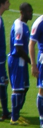 Kerrea Gilbert. Image cropped from original at Flickr.